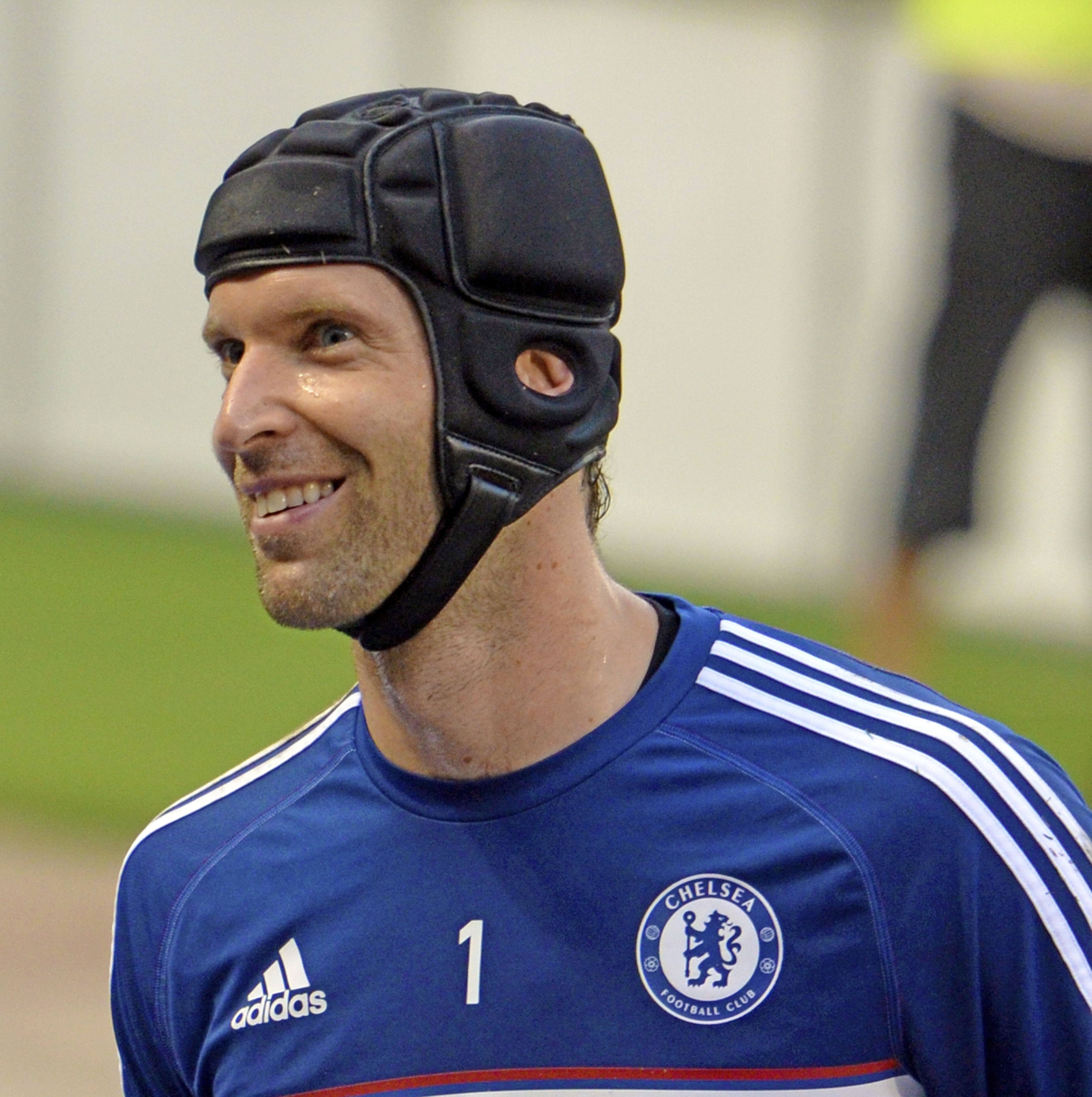 Petr Čech laughing it up with the Chelsea FC Training staff prior to a friendly game against A.S. Roma. Čech did not play in this game as it was a friendly pre-season game which allowed Jamal Blackman and Mark Schwarzer an opportunity to each play a half.